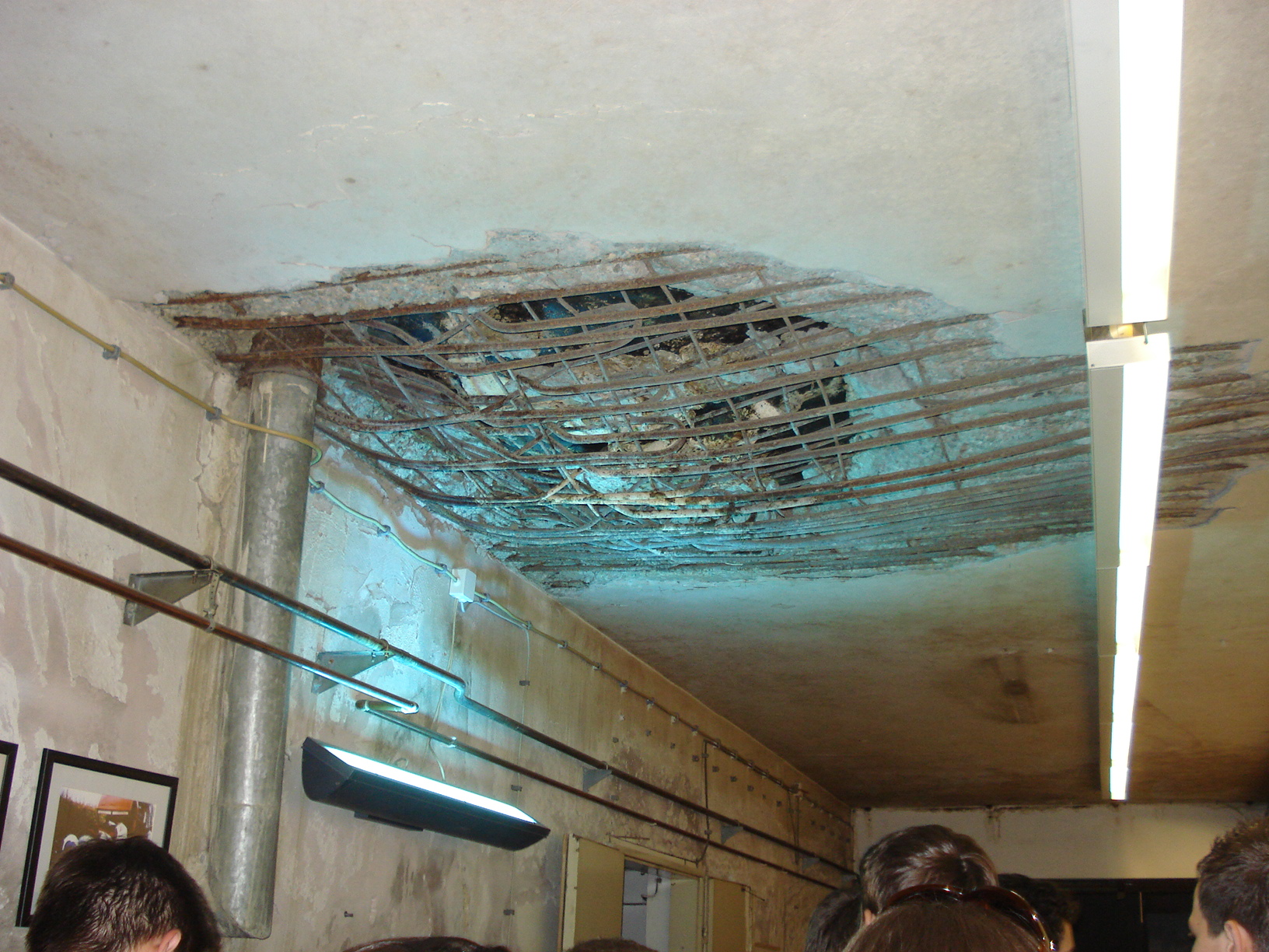 A group of high school students visits the Vukovar war memorial dedicated to the patients in Vukovar hospital which were evacuated by the JNA army, brought to and executed in Ovčara on 20 November 1991. It's interesting to point out that the memorial is located in the actual hospital where the incident occured. The hospital is still working today and secured that location exclusively for the memorial, including puppets which represent patients in 1991. The crater on the ceiling, where a JNA shell fell but mircaulously did not explode, was left unrepaired to show what damage was done.